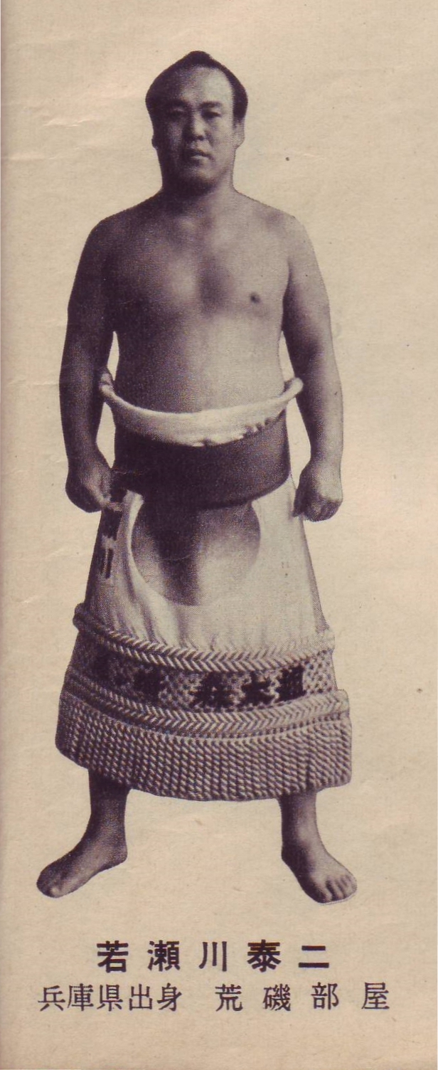 Wakasegawa Yasuji (Komusubi). taken in 1958, or before that.